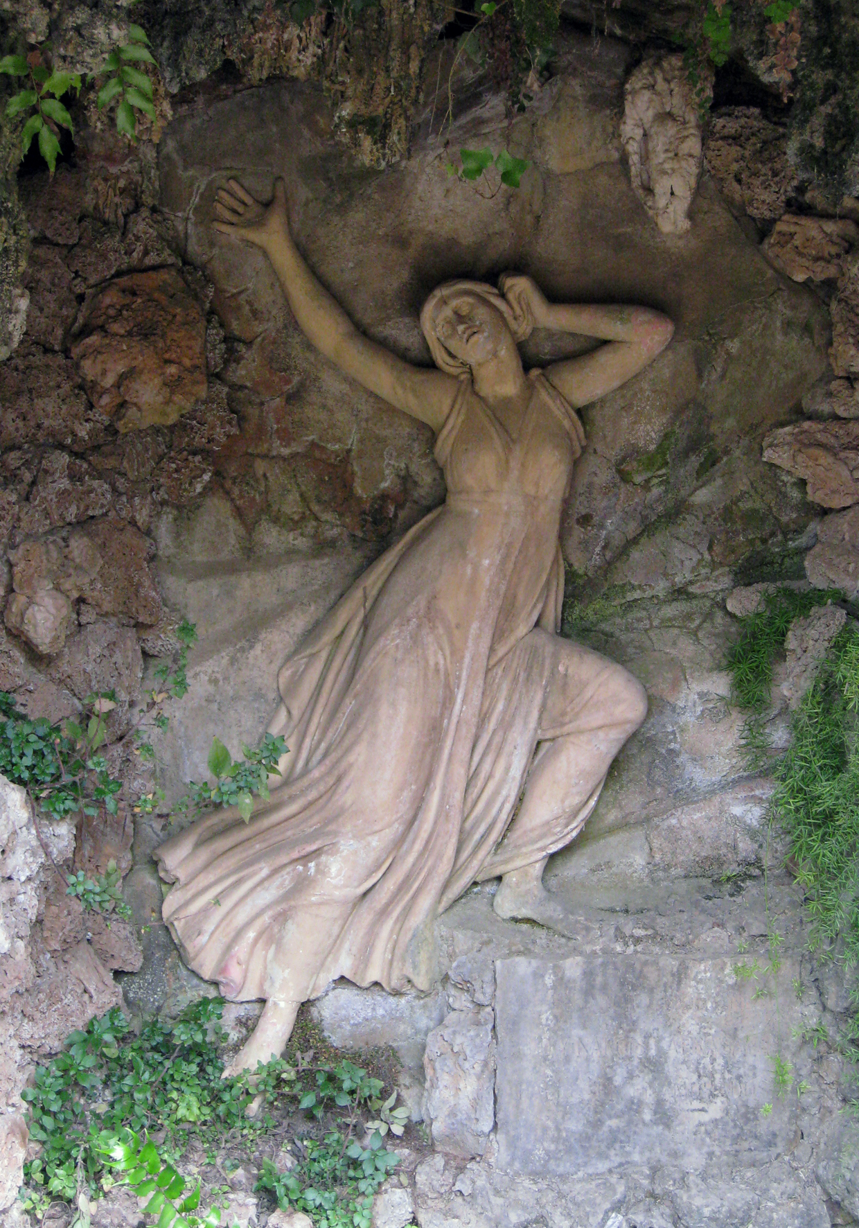 Relief of nymph Echo in the Parc del Laberint d’Horta in Barcelona, Catalonia (Spain).